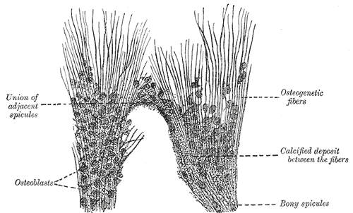 Part of the growing edge of the developing parietal bone of a fetal cat. (After J. Lawrence.)